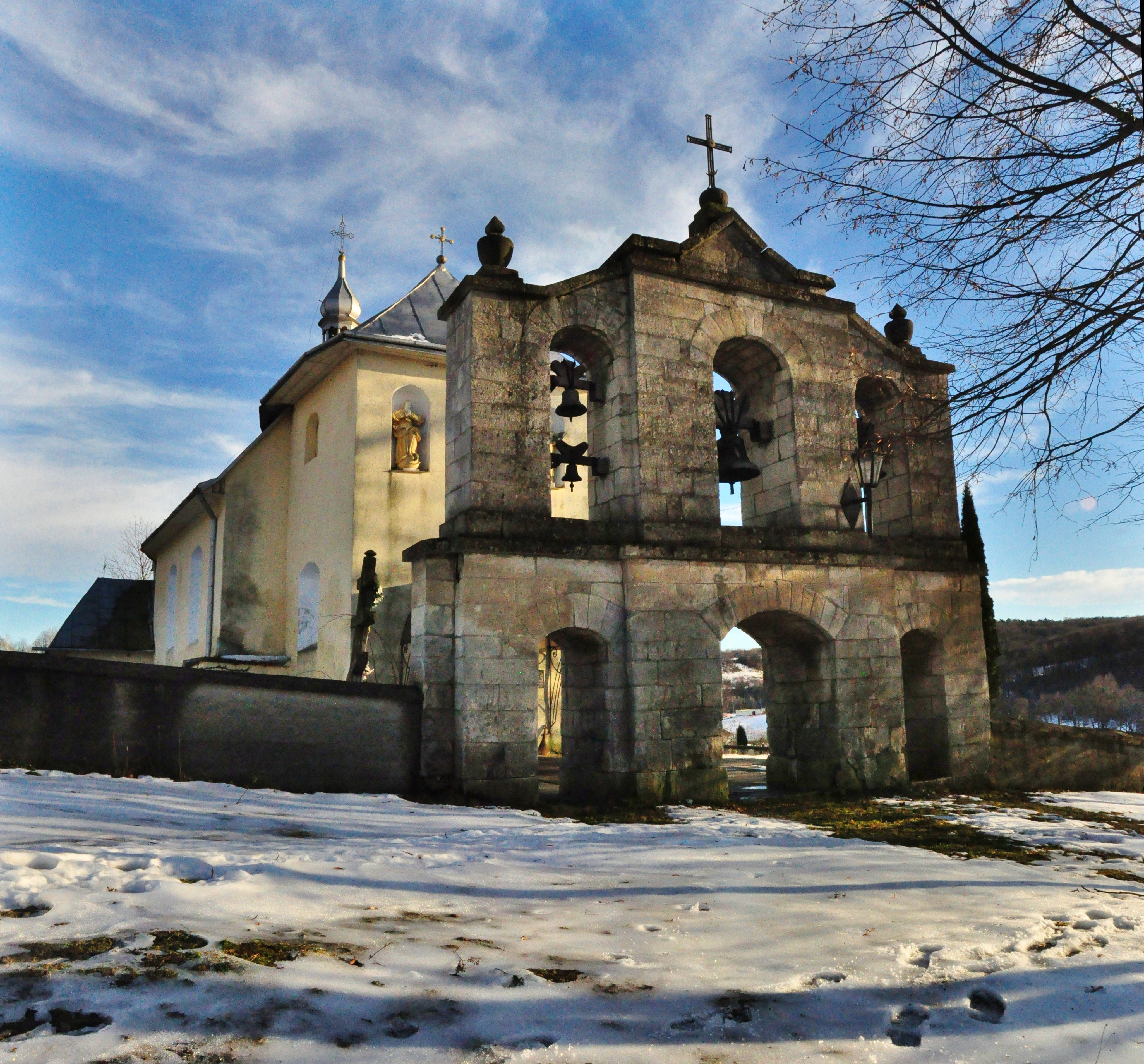 Church of St John Crysostom (UGCC) in Poliana, Mykolaiv Raion Lviv Oblast